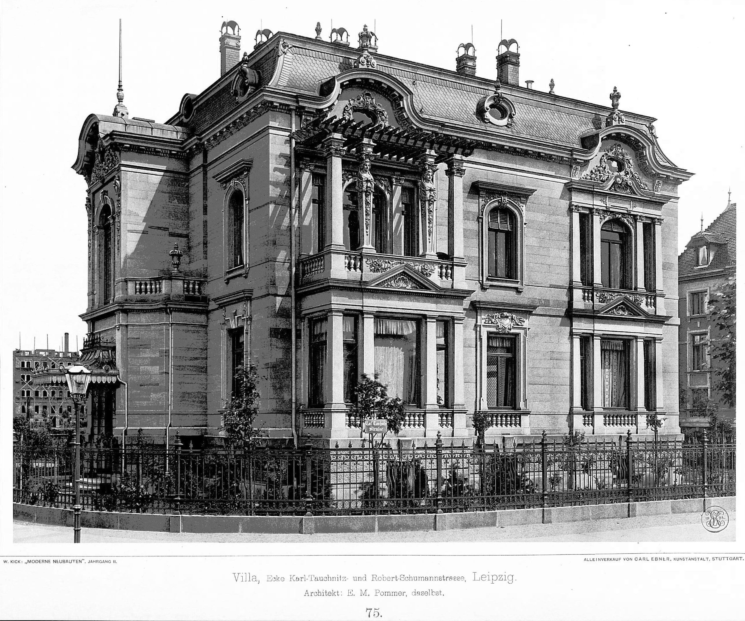 Villa, Ecke Karl-Tauchnitz- und Robert-Schumann-Straße, nach heutiger Zählung Karl-Tauchnitz-Straße 31, Leipzig, Architekt E. M. Pommer, Leipzig, Tafel 75, Kick Jahrgang II.jpg